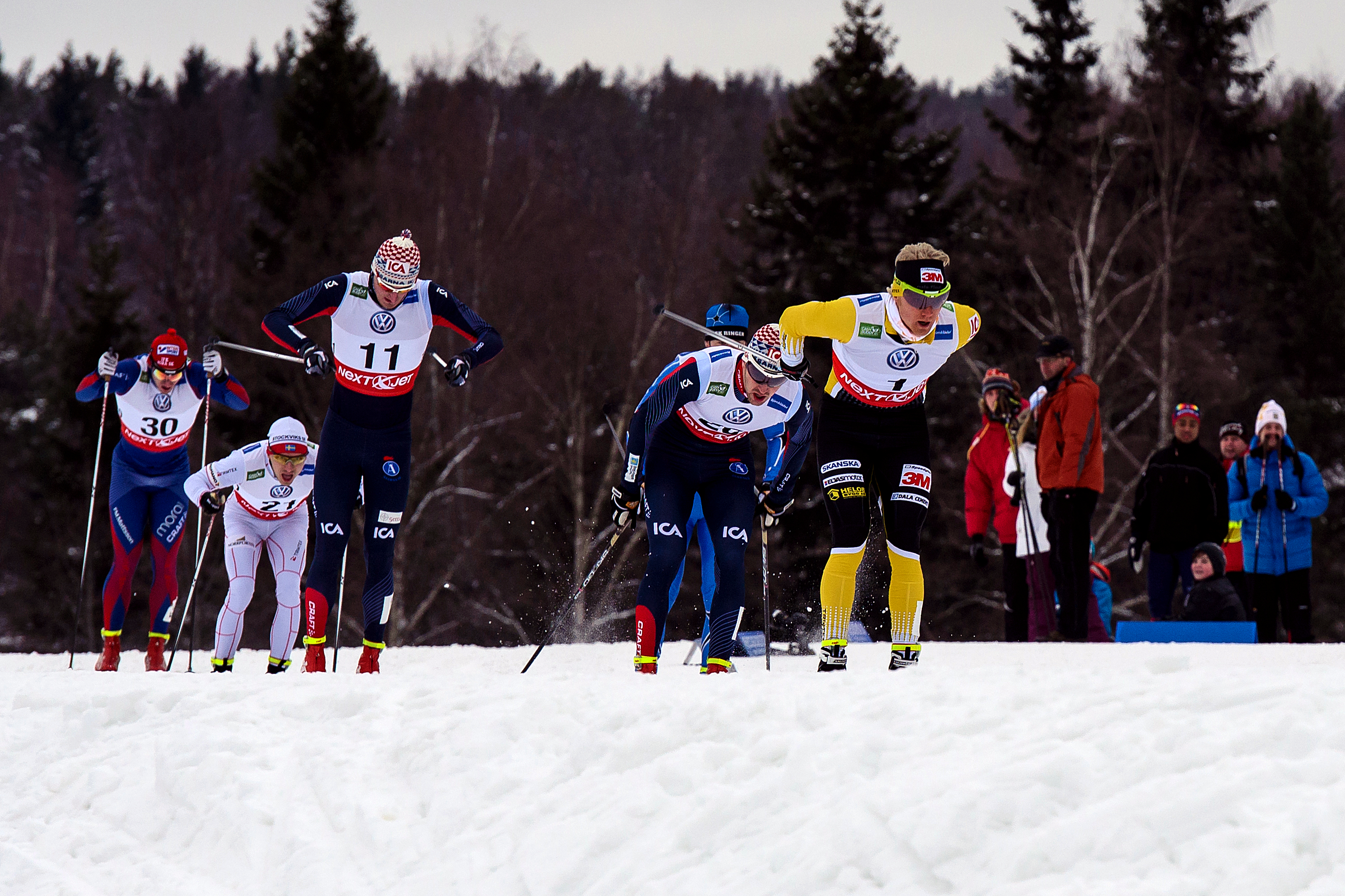 The first quarter final of cross country skiing, sprint discipline, for men. 2013 Swedish national championships, Falun, Sweden.